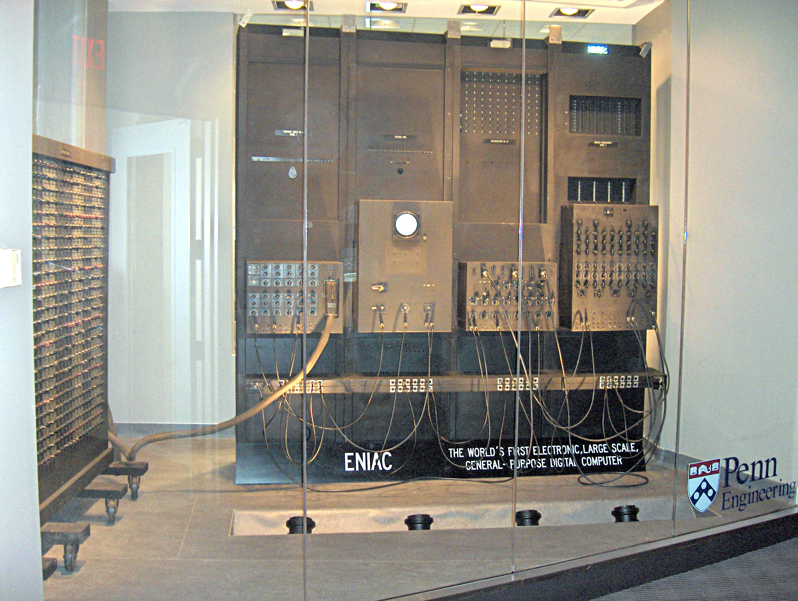 Two pieces of ENIAC currently on display in the Moore School of Engineering and Applied Science, in room 100 of the Moore building. Photo courtesy of the curator, released under GNU license along with 3 other images in an email to me. Copyright 2005 Paul W Shaffer, University of Pennsylvania. On the left is a function table (for reading in a table of data). There are four panels, the left-most one controls the interface to the function table. The third one is an accumulator - memory for storing a 10-digit number, which can be added into.